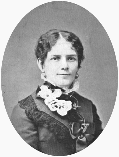 Harriet Melinda Baldwin Damon (1846–1932), daughter of missionary Dwight Baldwin and wife of Samuel Mills Damon (1845–1924).